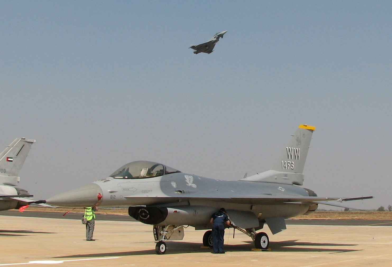 A Luftwaffe Eurofighter conducts aerobatic maneuvers over an F-16 Fighting Falcon Feb. 9 during a demonstration at the Aero India 09 air show at Air Force Station Yelahanka, India. The F-16, along with a C-17 Globemaster III, C-130J Hercules, KC-135 Stratotanker, F/A-18 Hornet and an Eagle Vision ground satellite system, are on hand at the air show, demonstrating U.S. capabilities and commitment to the Pacific region. (U.S. Air Force photo/Maj. Sam Highley)